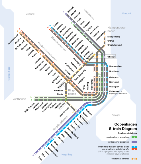 Diagram of the Copenhagen S-train system, with legend. Køge-bugtbanen is highlighted.